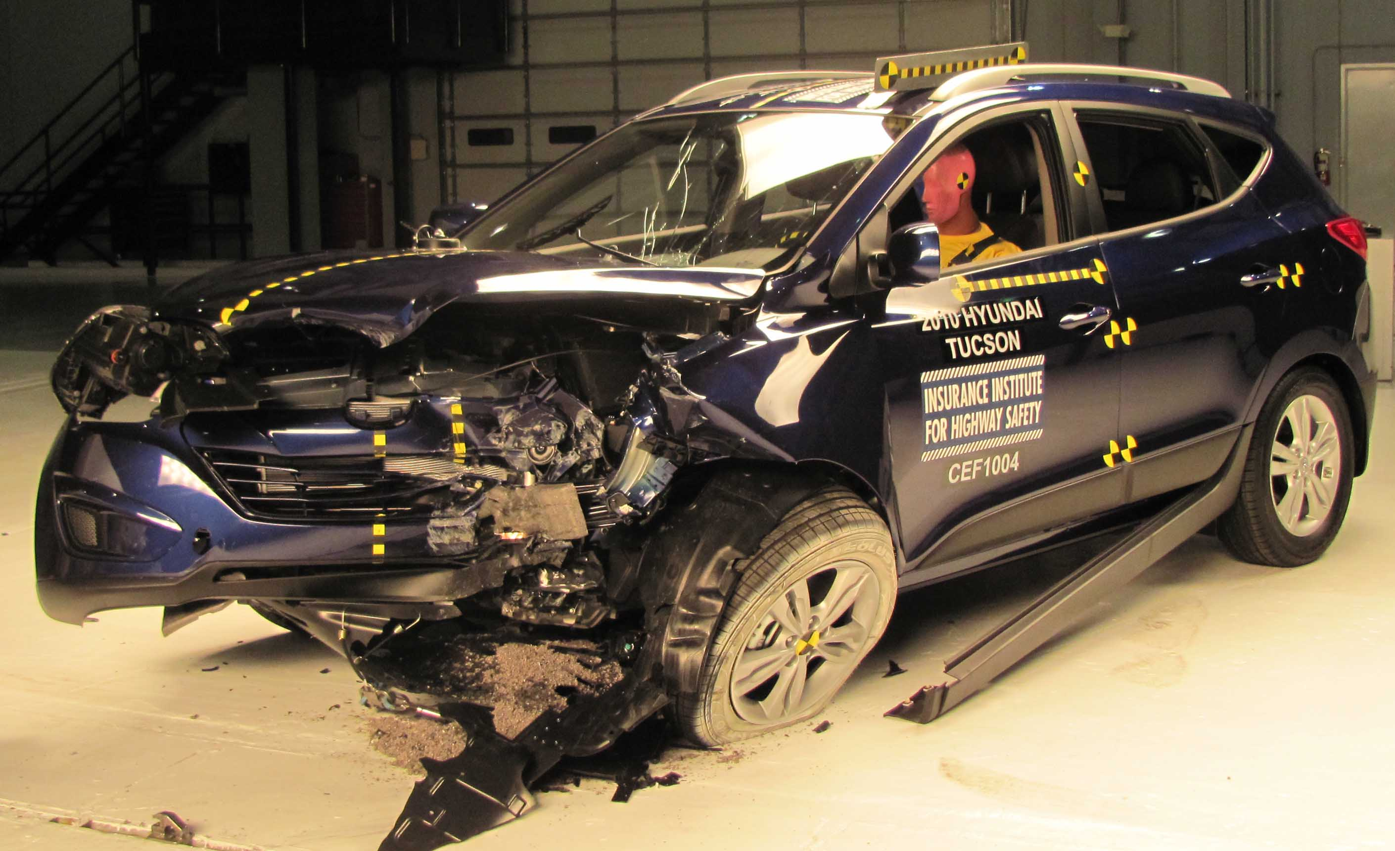 Crash-tested 2010 Hyundai Tucson GLS photographed at the Insurance Institute for Highway Safety Vehicle Research Center. IIHS crash test page